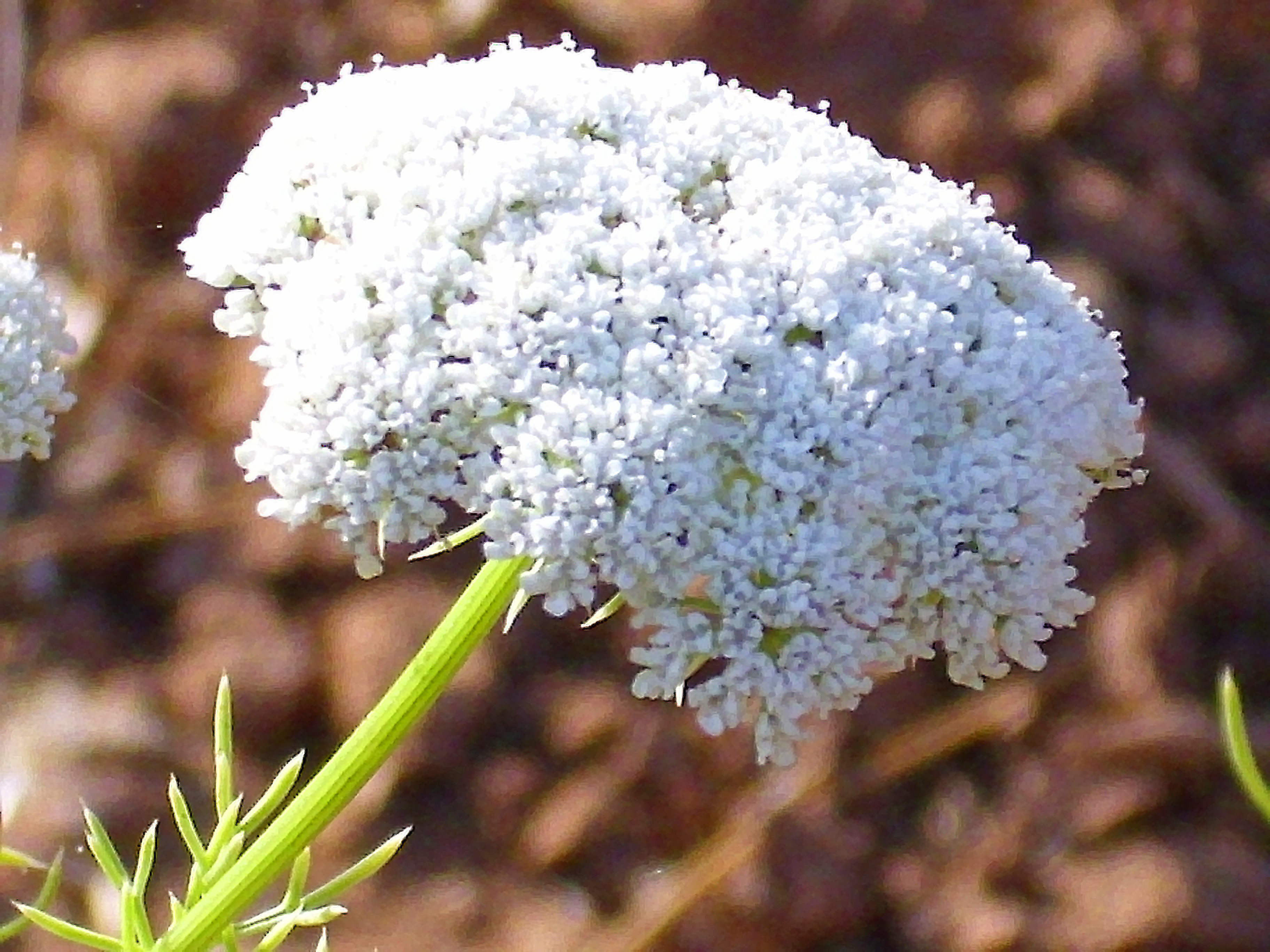 Ammi visnaga close up Campo de Calatrava, Spain